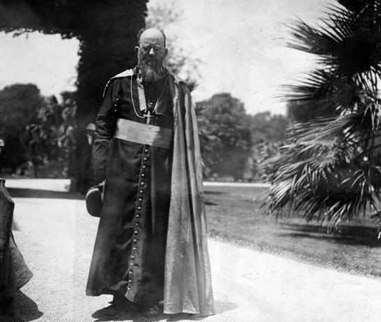 John O'Reily, Archbishop of Adelaide (1895-1915), c. 1910